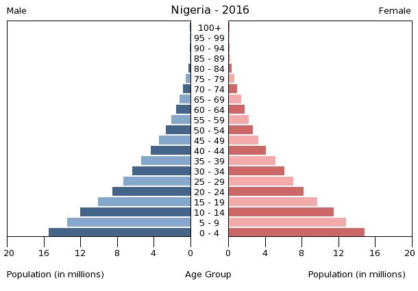 The population pyramid of Nigeria illustrates the age and sex structure of population and may provide insights about political and social stability, as well as economic development. The population is distributed along the horizontal axis, with males shown on the left and females on the right. The male and female populations are broken down into 5-year age groups represented as horizontal bars along the vertical axis, with the youngest age groups at the bottom and the oldest at the top. The shape of the population pyramid gradually evolves over time based on fertility, mortality, and international migration trends.